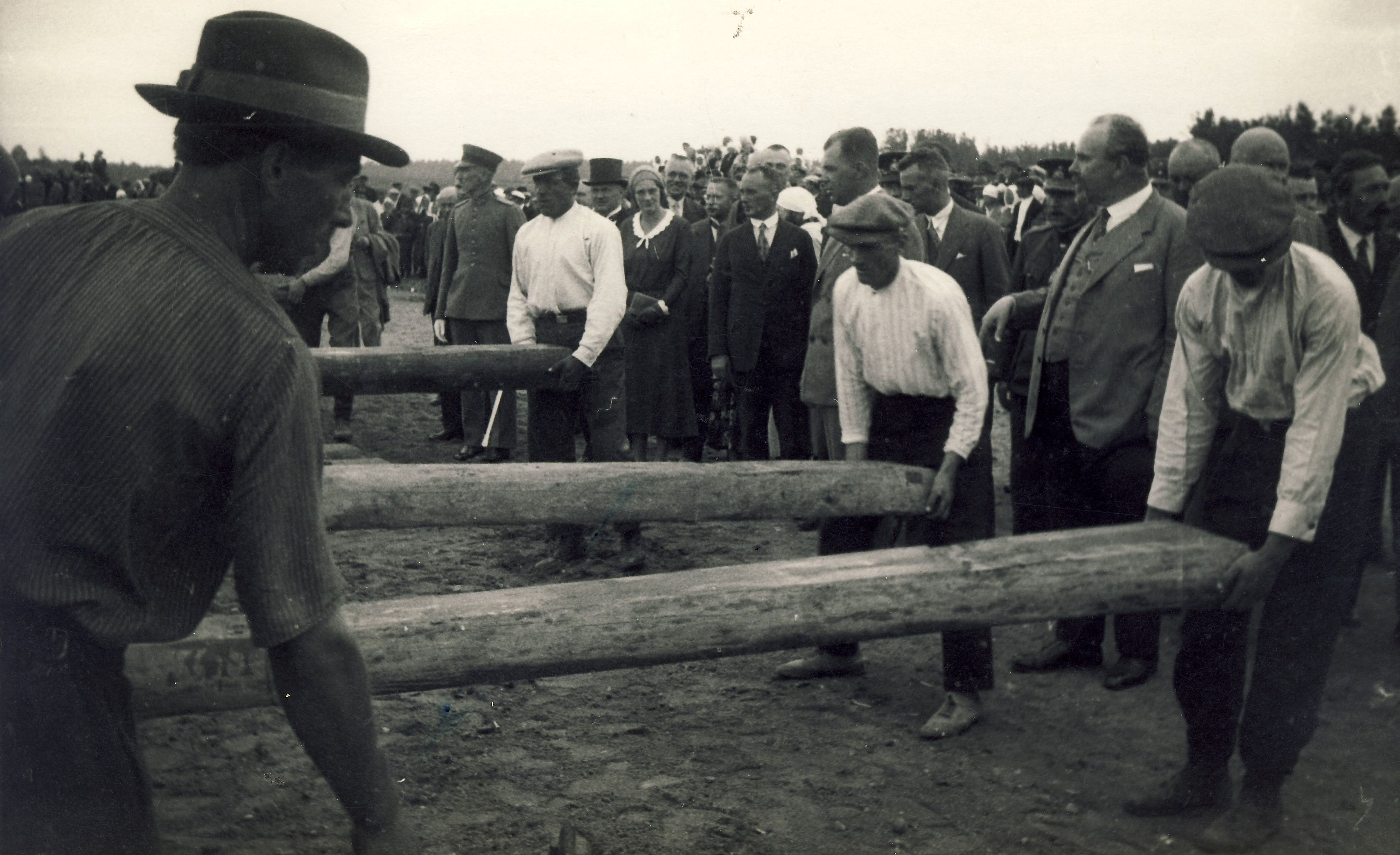 The beginning of Rapla-Virtsu railway construction in Rapla (1928)